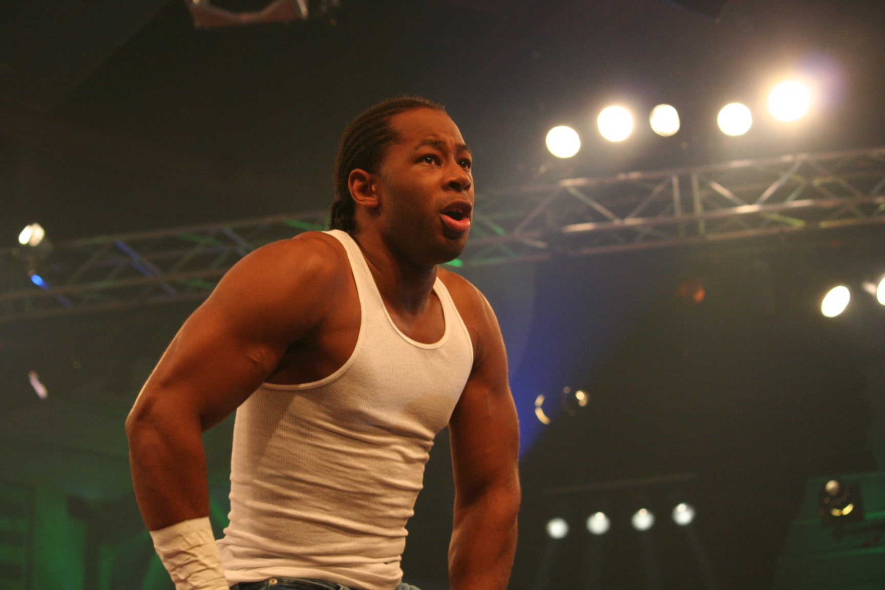 Professional wrestler Jay Lethal at a TNA Impact! taping